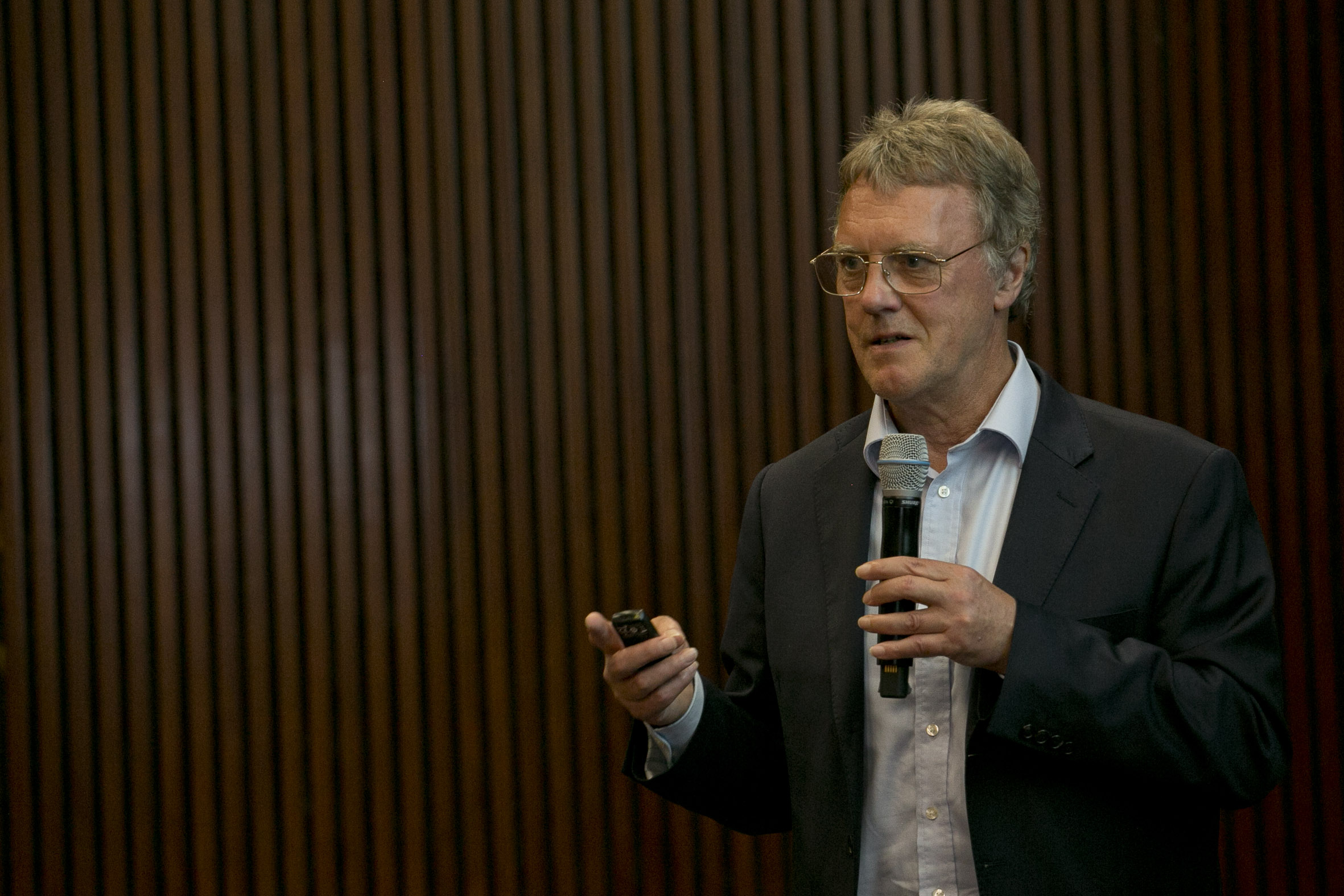 Peter Ratcliffe during a talk at the Centro Cultural de la Ciencia in Buenos Aires, Argentina.